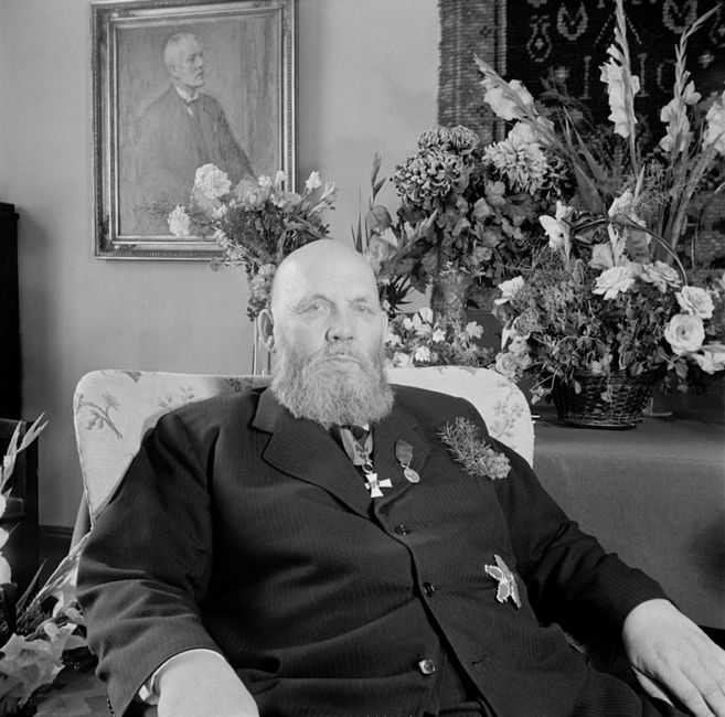 The Nobel laureate Frans Emil Sillanpää on his 60th birthday September 16, 1948. Around his neck is the Commander mark, First Class, of the Order of the Lion of Finland and on the breast the breat star belonging to it.